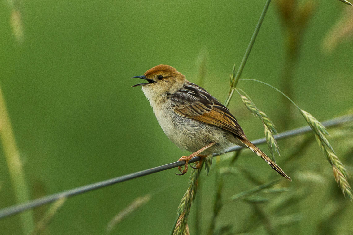 Levaillant's Cisticola - South Africa_S4E7688